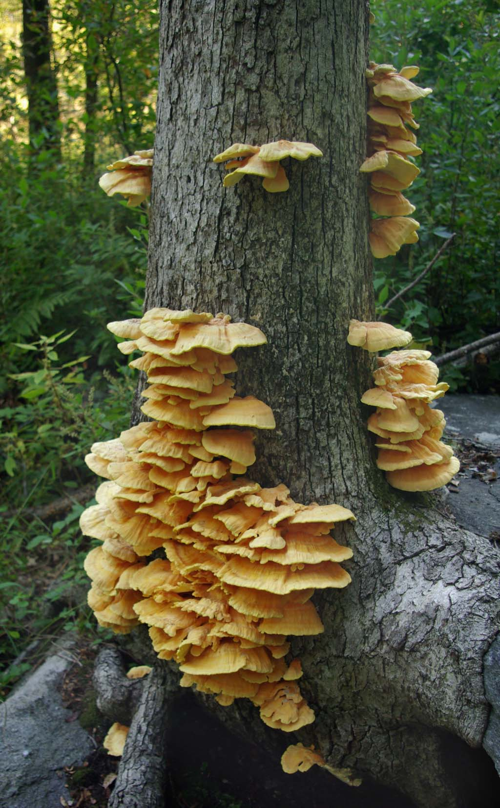 This group weighed aproximately 40 Lb